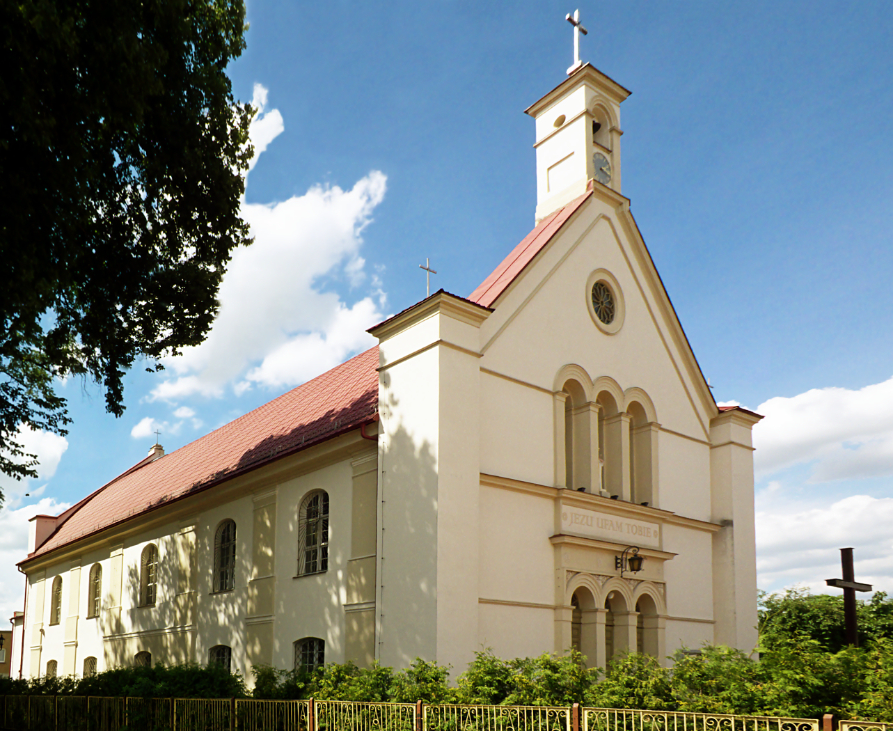 Rogoźno; Holy Spirit Church